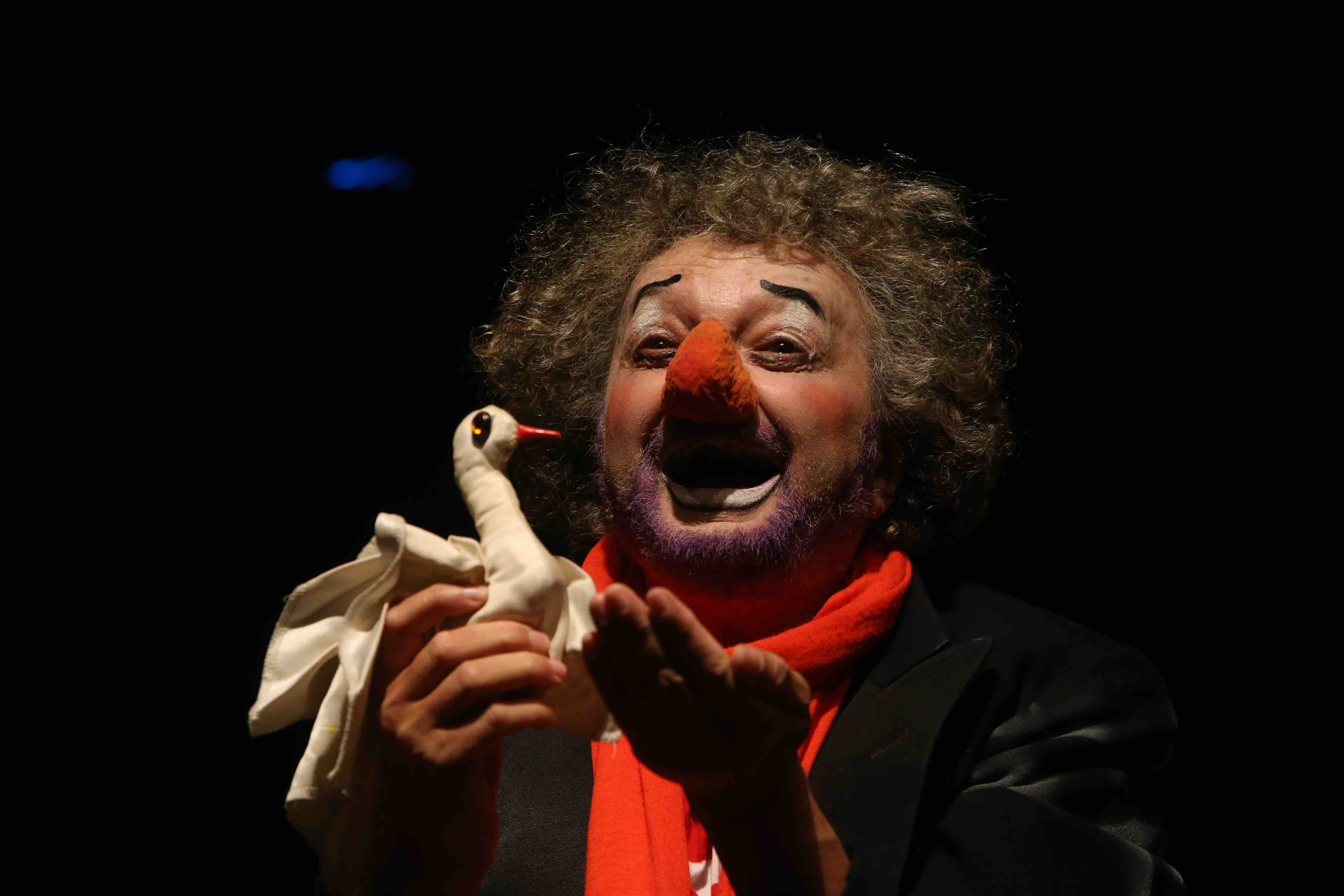 "Oops!" one man show by and with Vladimir Olshansky